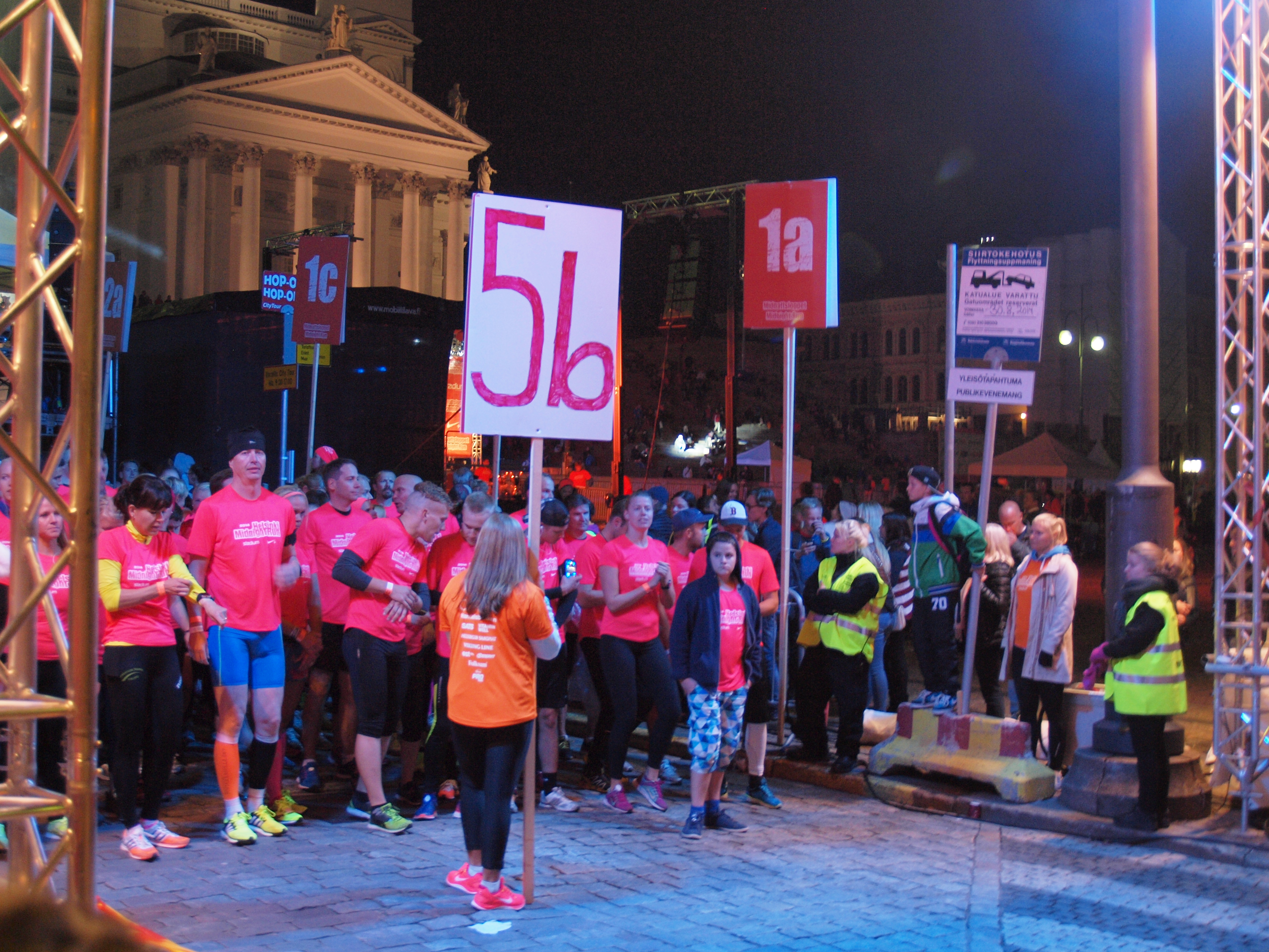 Participants in the Midnight Run 2014 event in central Helsinki, Uusimaa, Finland, about to start the event. The event consists of running 10 kilometres in late evening to midnight, in the city centre. Some of the participants wear fancy dress costumes, although no such participants are shown here.